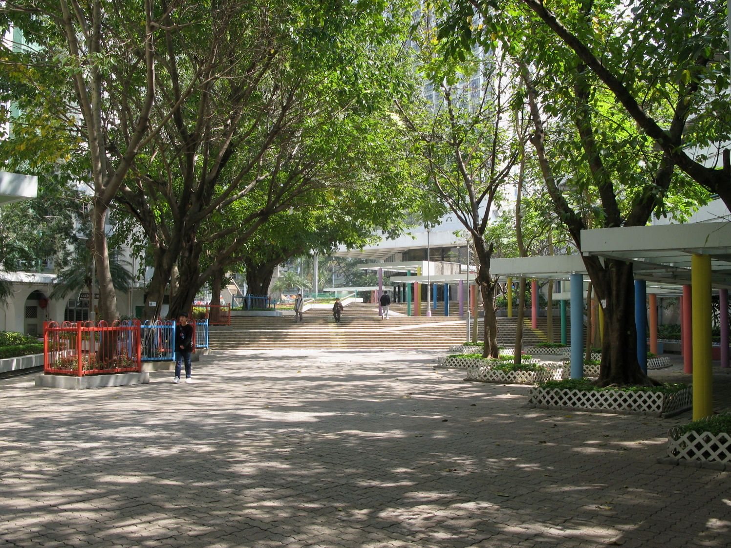 May Shing Court Access